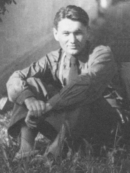 Otto Král (1904 - 1943) co-founded the Junák organization in Ústí nad Labem. After the Protectorate of Bohemia and Moravia was declared, he was involved in the illegal resistance movement within the organization ÚVOD - the Ore Mountains and also cooperated with the illegal group of Jan Zelenka - Hajský. Photo dated to the 1930s. (From Otta Hanzlíček's inheritance, Matěj Hanauer)